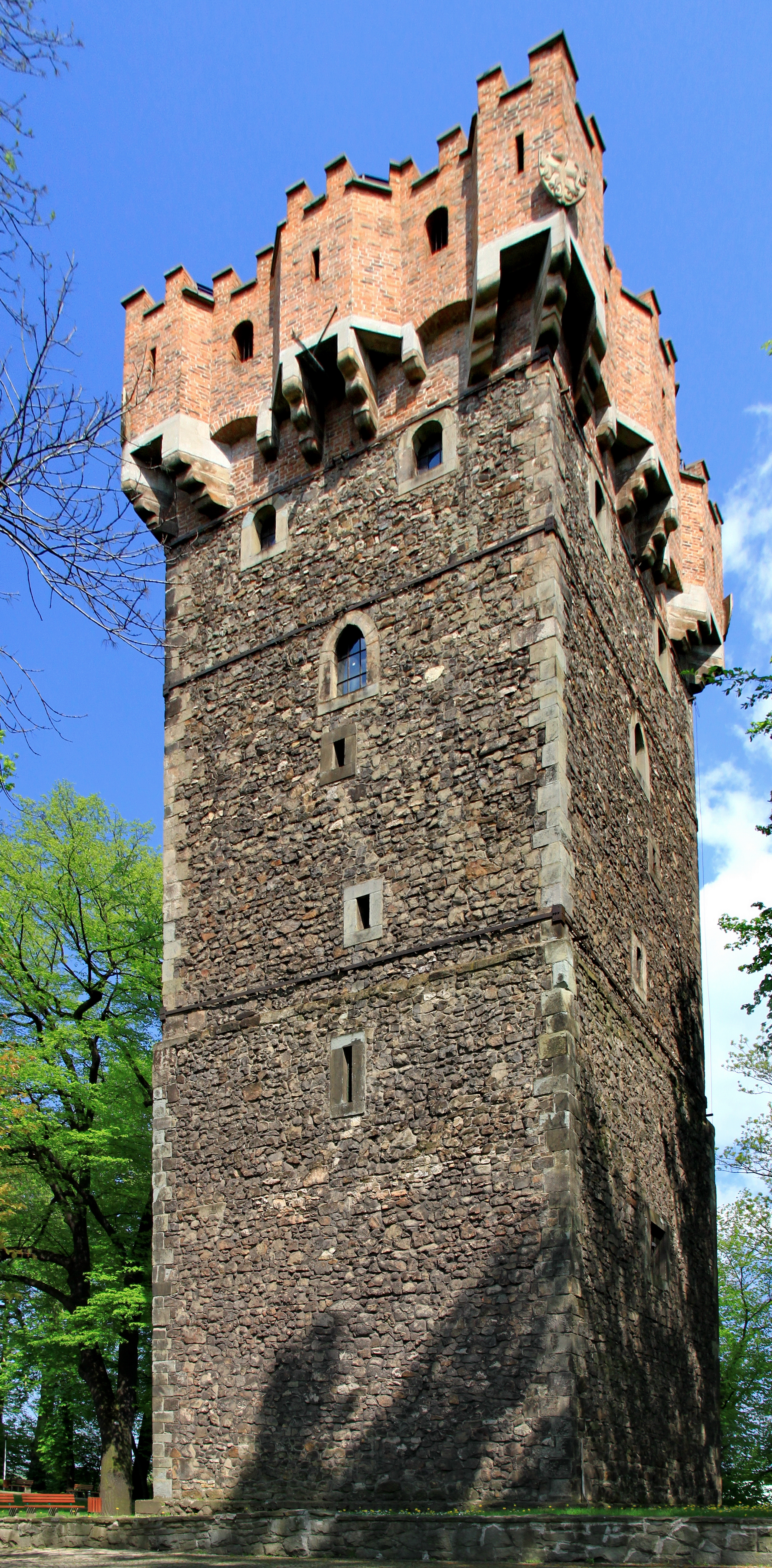 Cieszyn, Piast Tower, build in 2nd half of 13th century, 15th century, half of 19th century